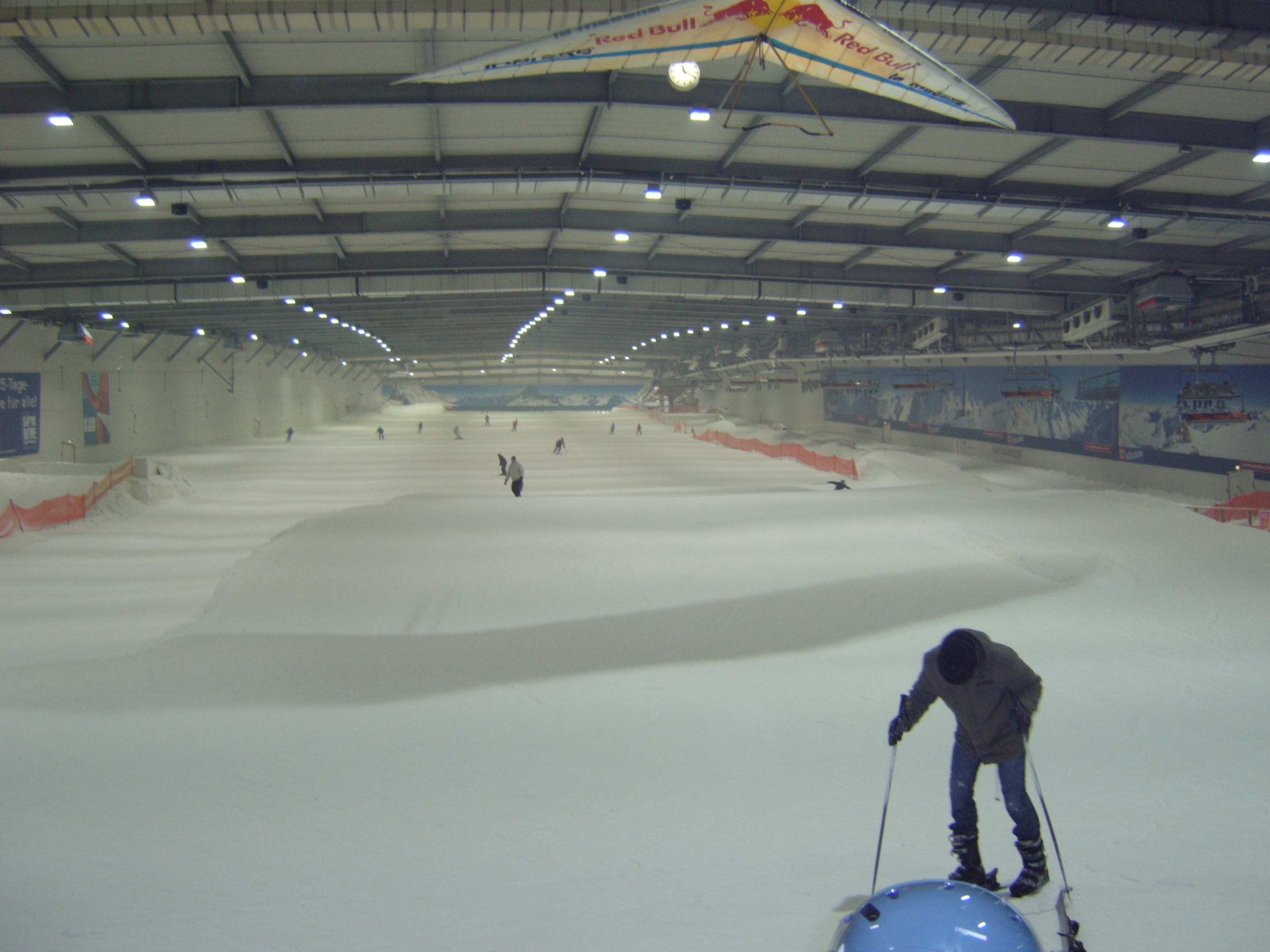 indoor ski, "Snowdome", city: Bispingen, Germany